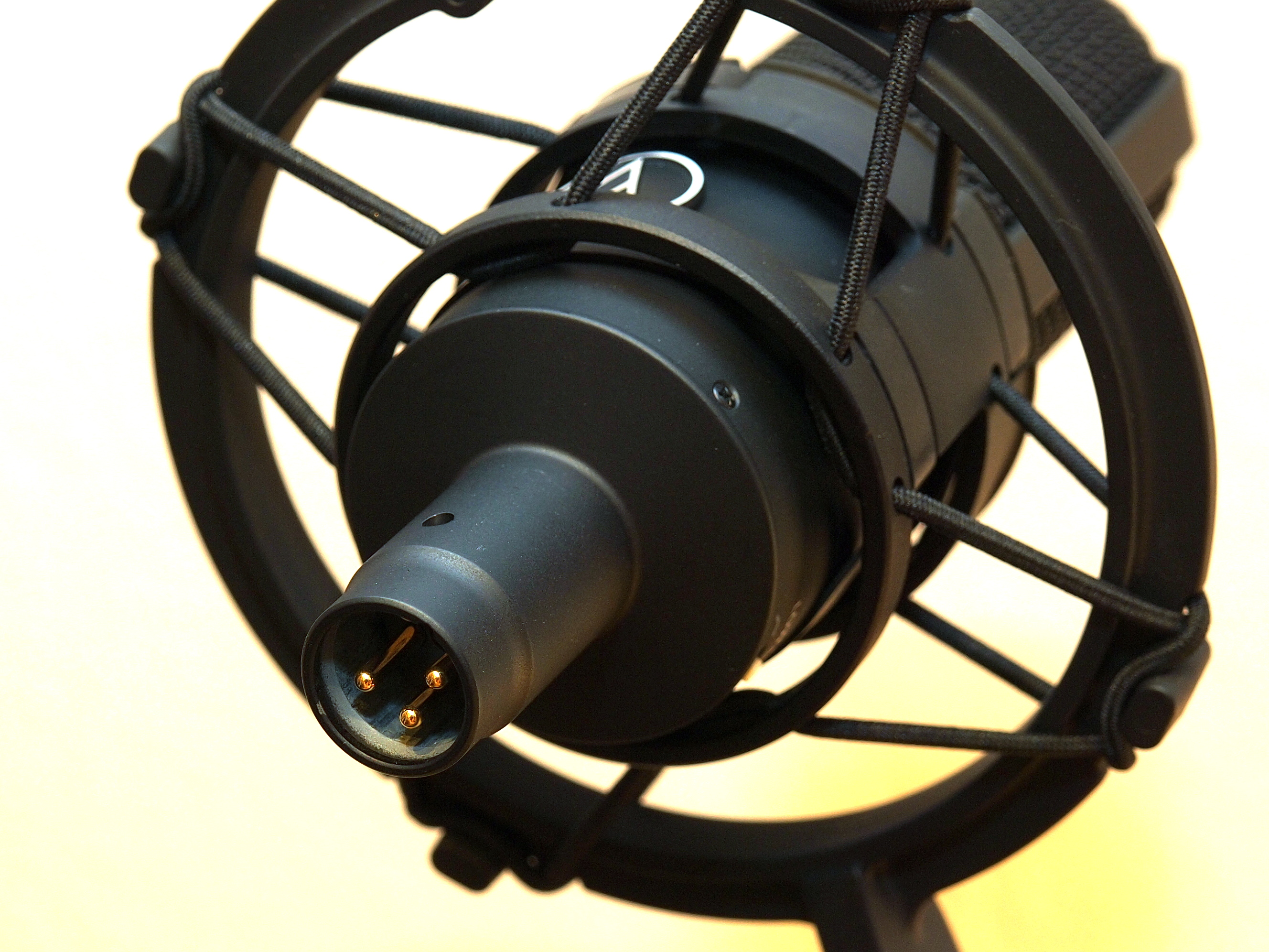 XLR connector on a studio microphone (Audio Technica AT 4040)